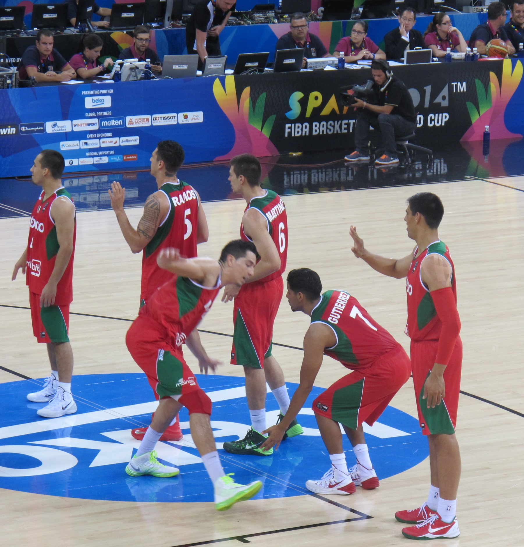 taken during 2014 Basketball World Cup